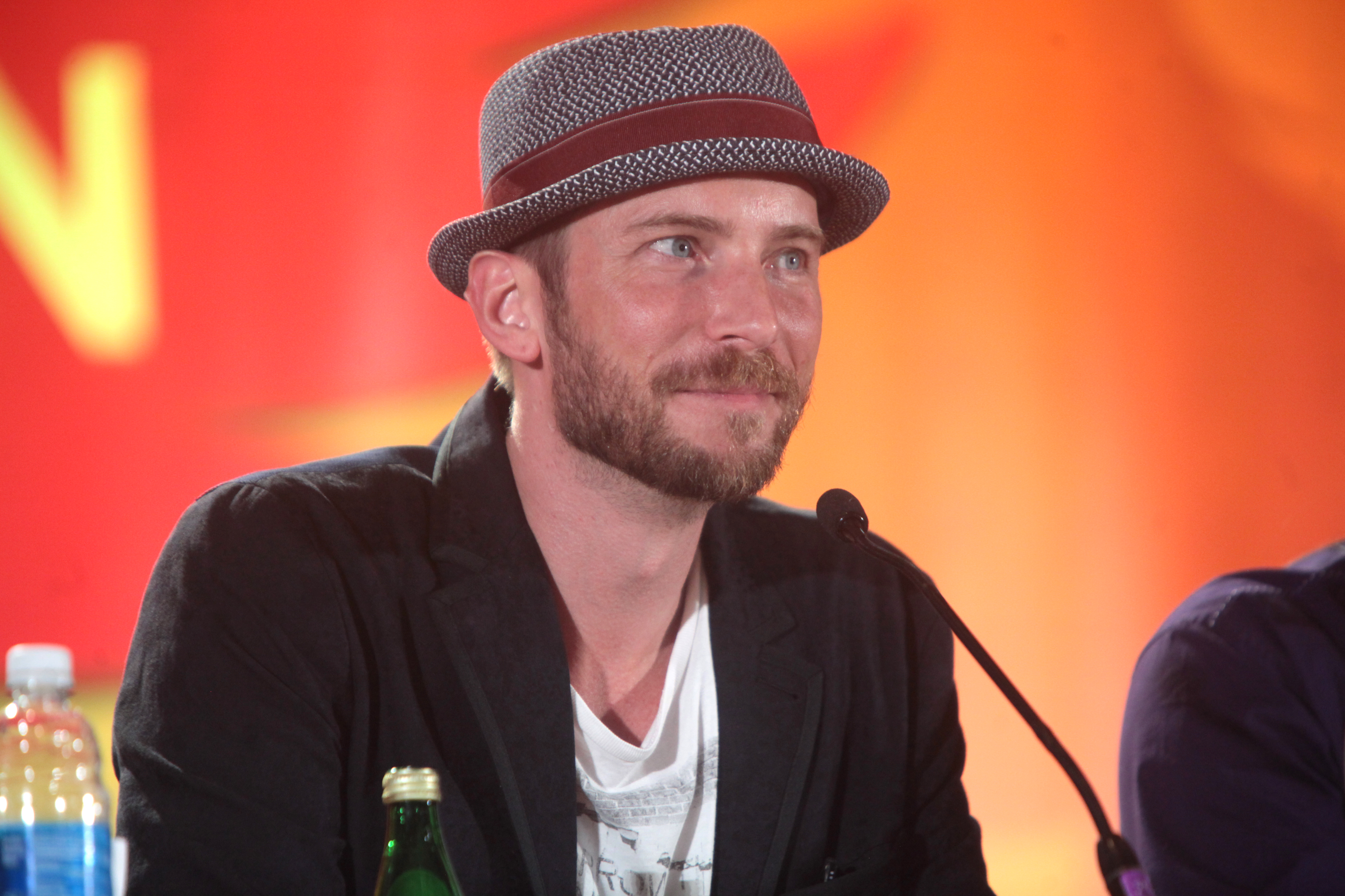 Troy Baker speaking at the 2016 Phoenix Comicon at the Phoenix Convention Center in Phoenix, Arizona.